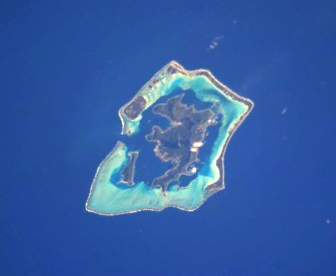 NASA picture